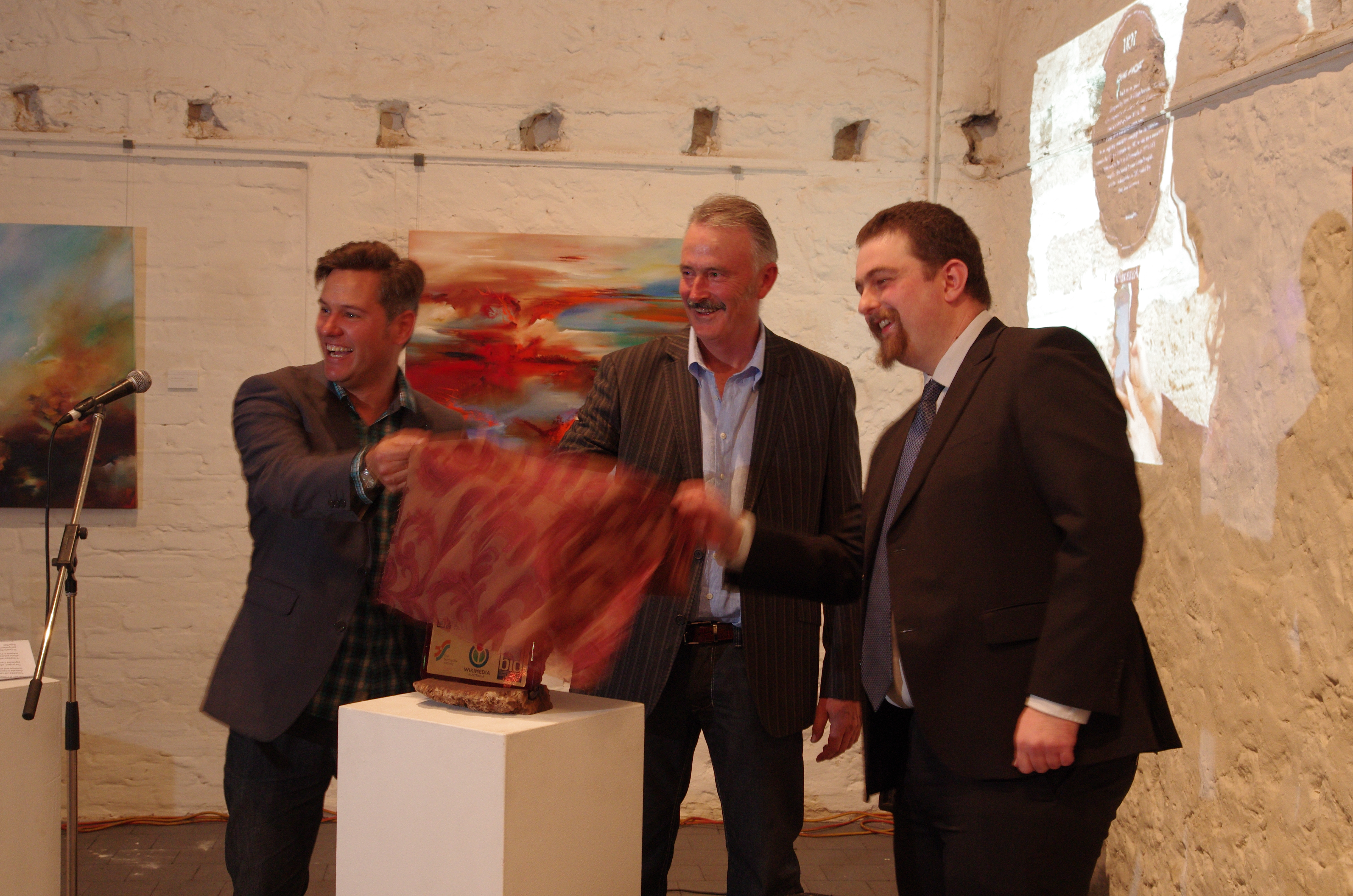 Launch of Freopedia in the W.D.Moores & Co. Warehouse from the left Mayor of Fremantle - Dr Brad Pettitt, President of The Fremantle Society - Henty Farrar, President of Wikimedia Australia - Craig Franklin... launching Freopedia